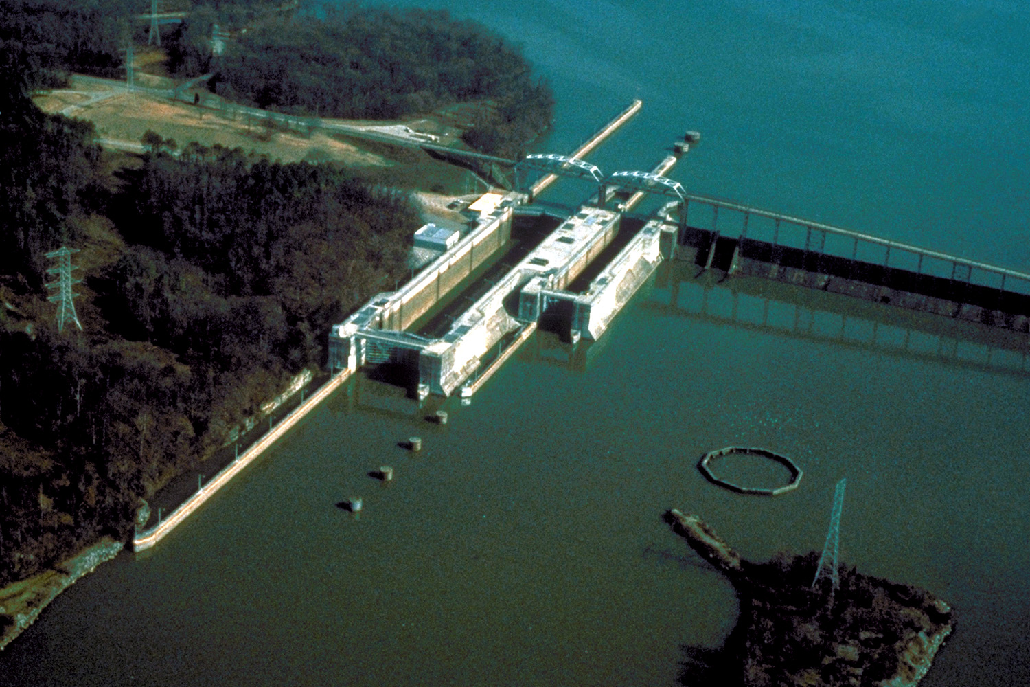 Wheeler Lock and Dam, impounding Wheeler Lake on the Tennessee River near Rogersville, Alabama, USA.